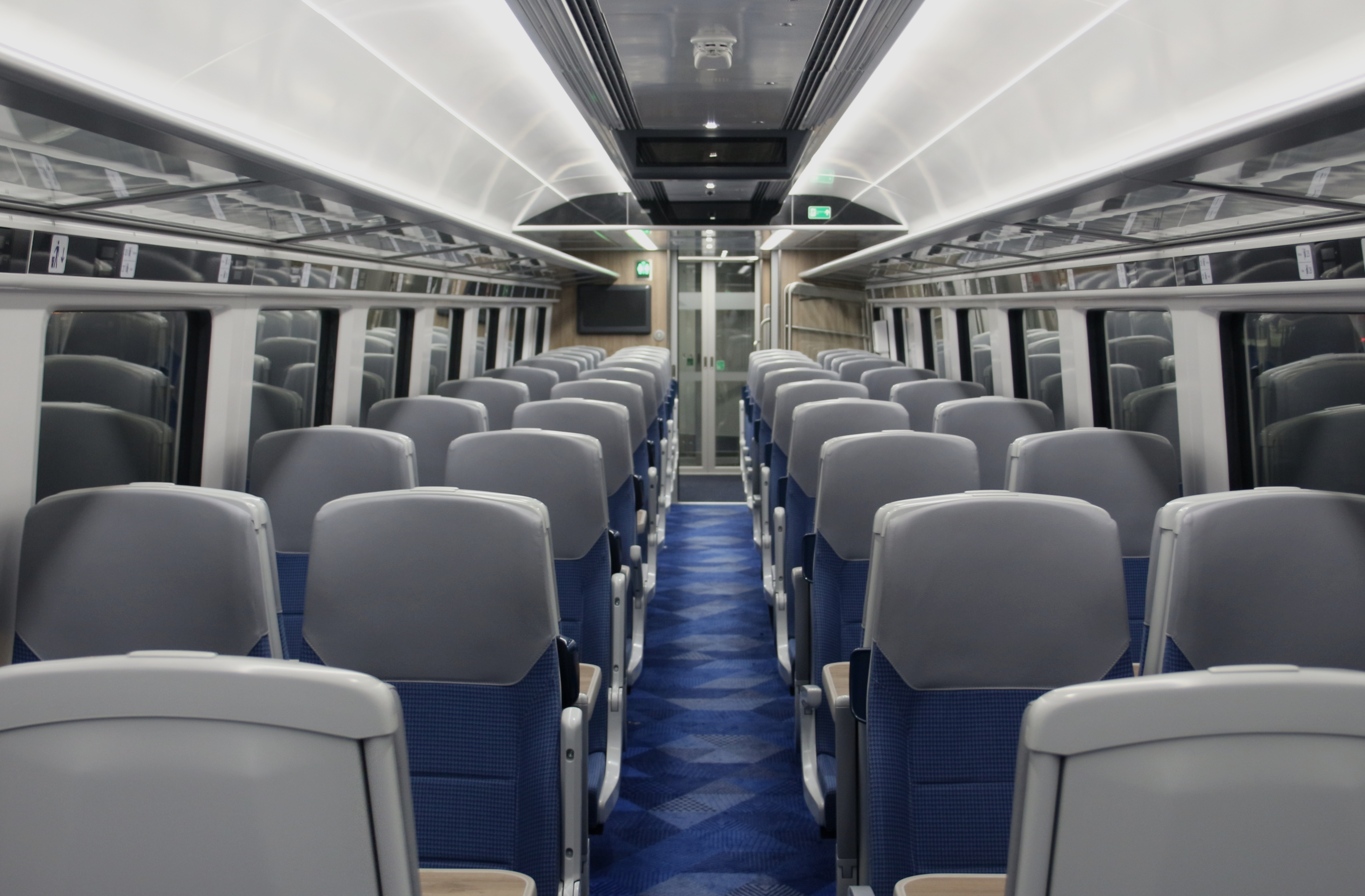 The standard class seated accommodation on-board a Class 397 EMU operated by TransPennine Express. This unit was 397003, within the first few weeks of service for this type of train.